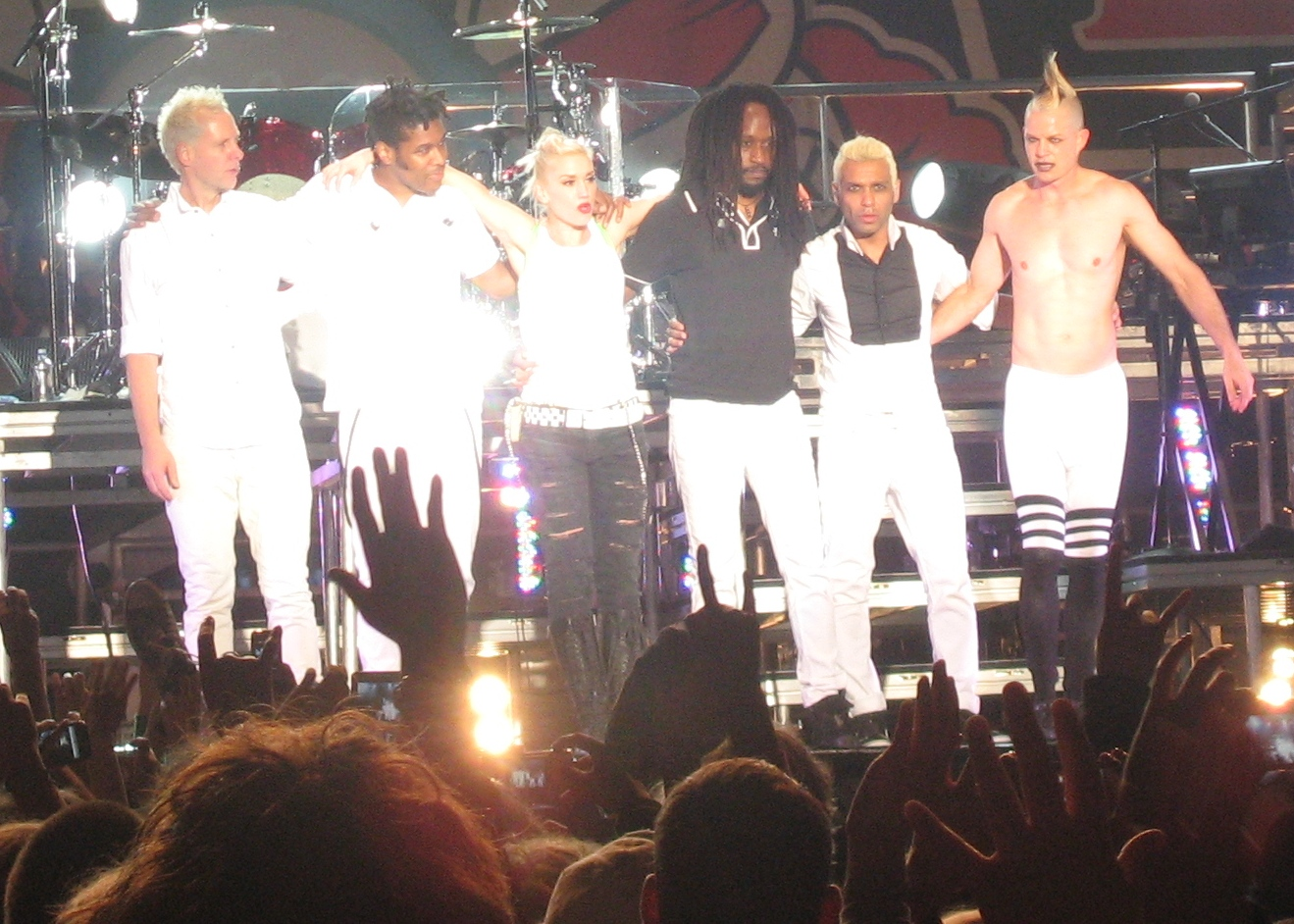 No Doubt performing during the Summer Tour 2009 in Giants Stadium in East Rutherford.